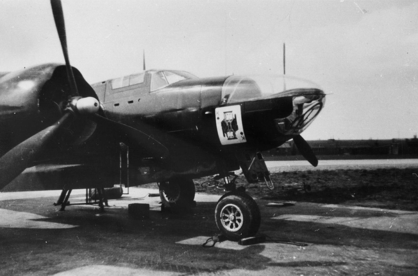 An A-26 Invader of the 492nd Bomb Group at Harrington. Handwritten caption on reverse: 'Harrington Spring 1945.'